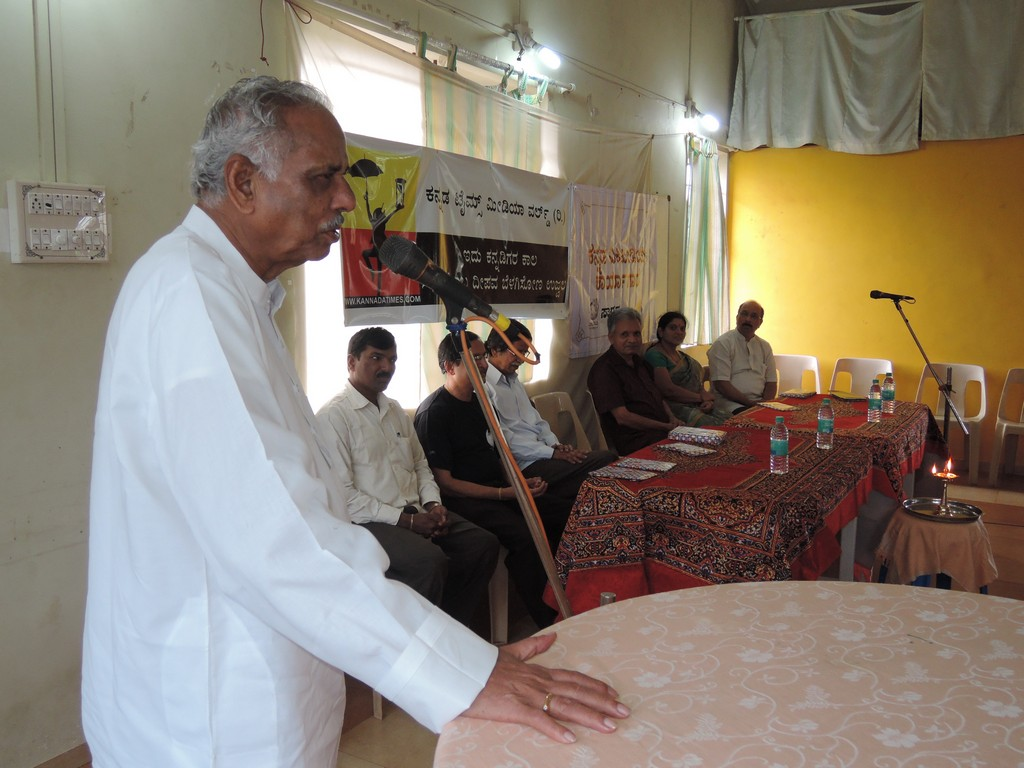 annada Wikipedia workshop at Sagar, Shimoga Dist, Karnataka on 28-7-2013